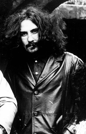 Cropped version of a trade ad for Black Sabbath's album Black Sabbath, uncropped version on Wikimedia Commons at